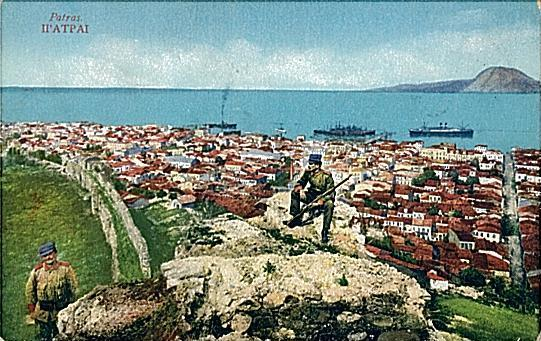 The Castle of Patras. Early 20th century